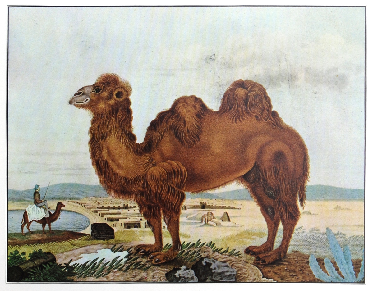 from the "Bestiarium"